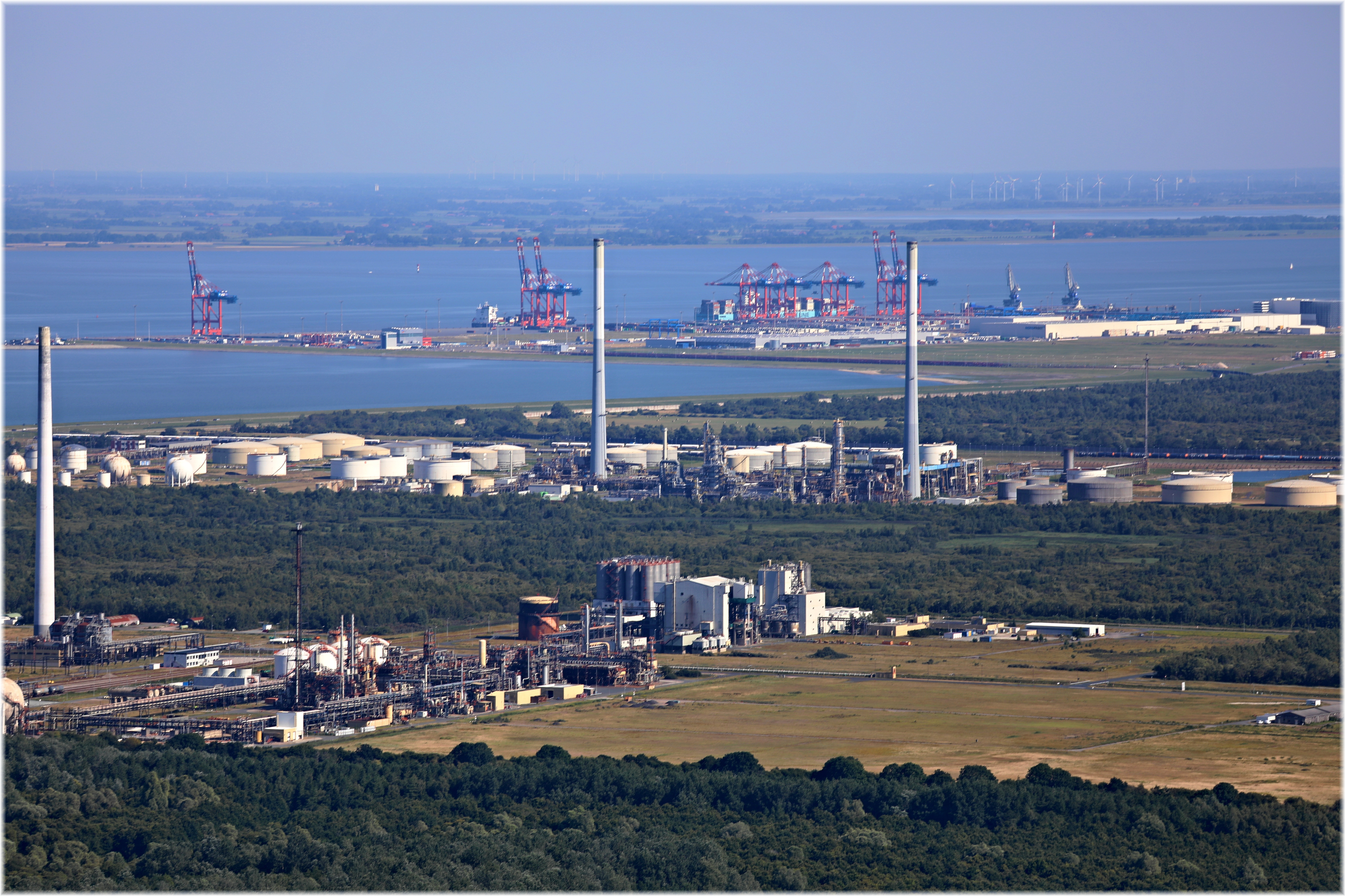 The Voslapper Groden north of Wilhelmshaven is a complex of great industrial and nature protected areas.